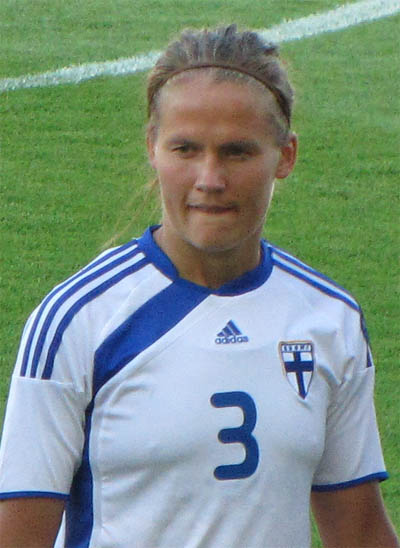 Jessica Julin during Finland - Northern Ireland friendly match.